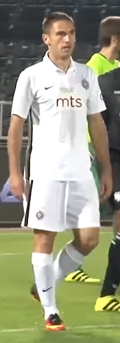 Miroslav Vulićević during a friendly match between Partizan and PAOK on 8 October 2016.